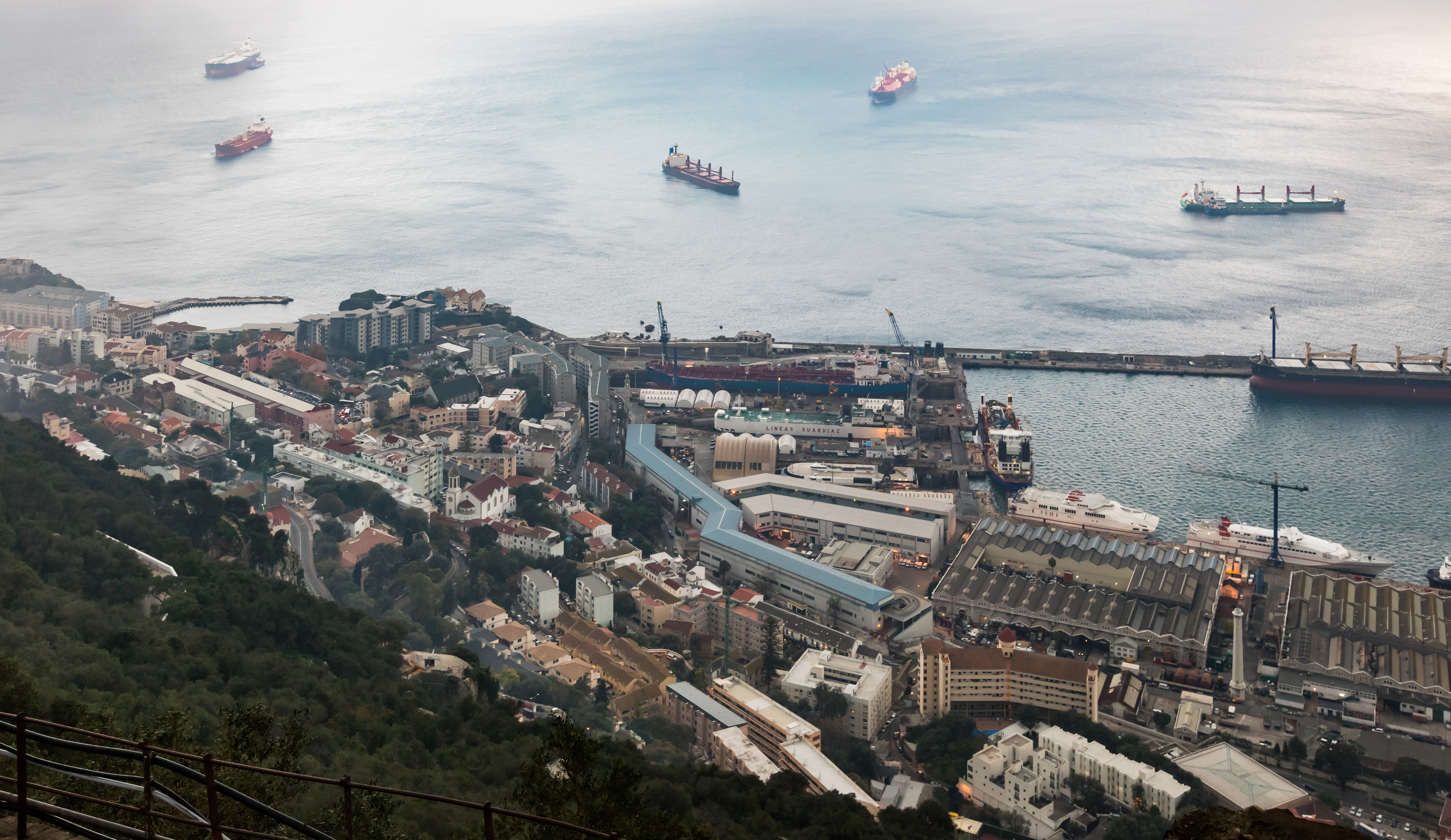 Port of Gibraltar